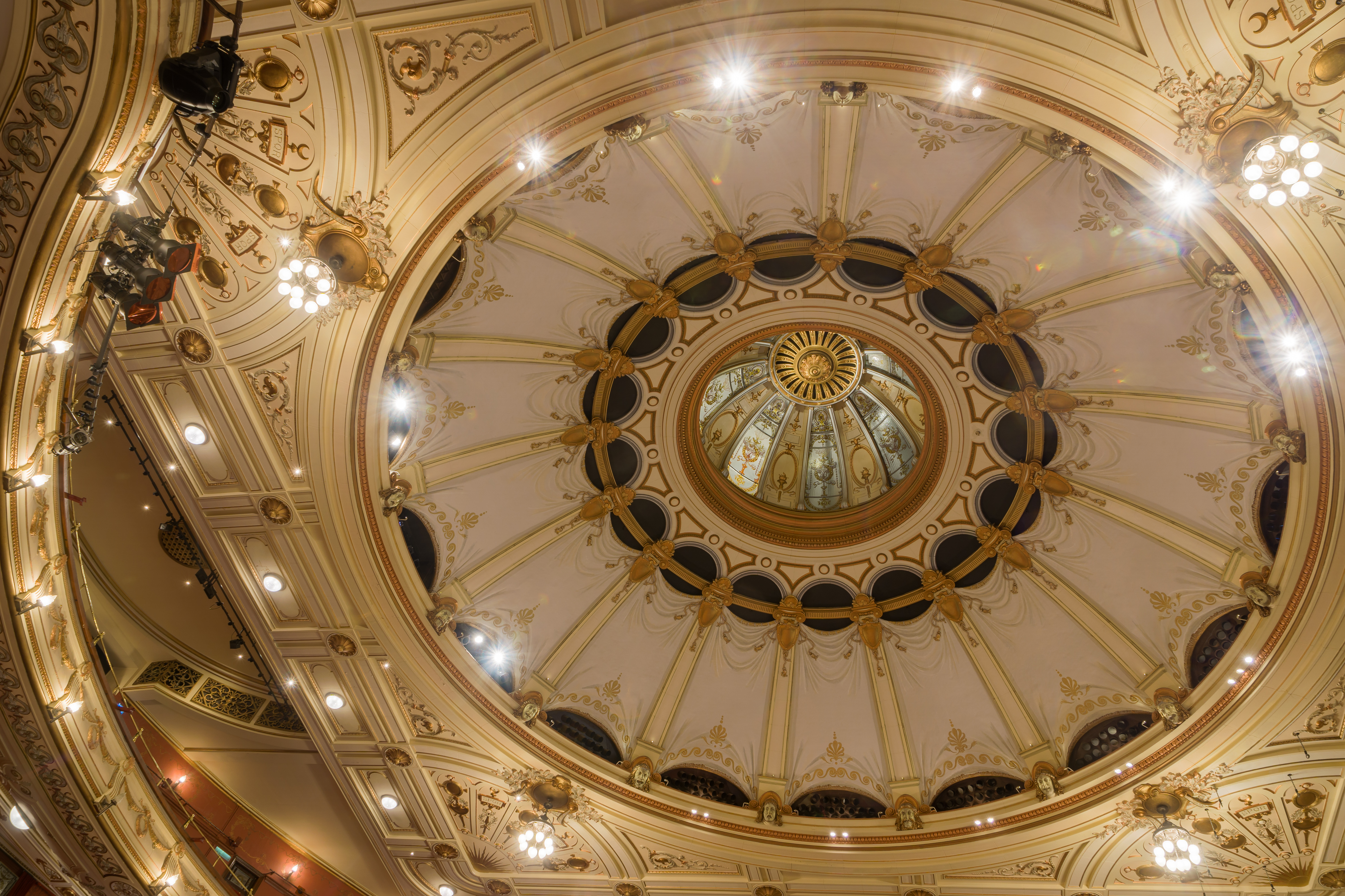 London Coliseum auditorium ceiling Wikidata has entry Q1868965 with data related to this item.